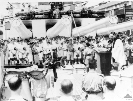 AWM caption : "Sydney, NSW. 1945-01-16. HMS Howe, with several Australians in her complement, visited Australia late in 1944. This church parade takes place under the muzzles of the 14-inch guns."